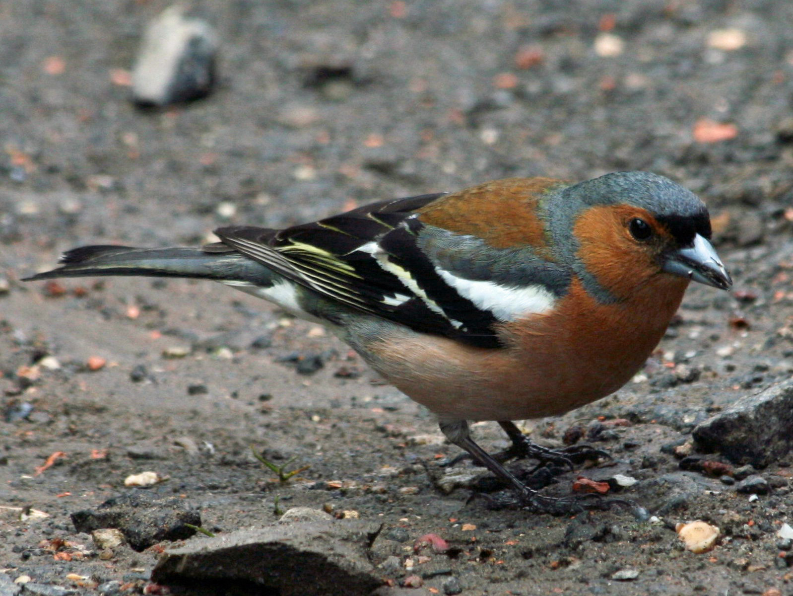 Chaffinch (Fringilla coelebs) - Scotland